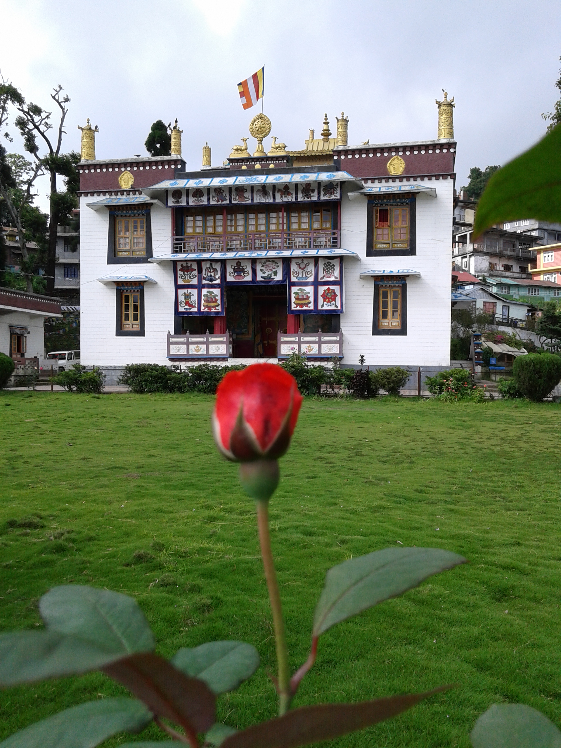 Monastery image